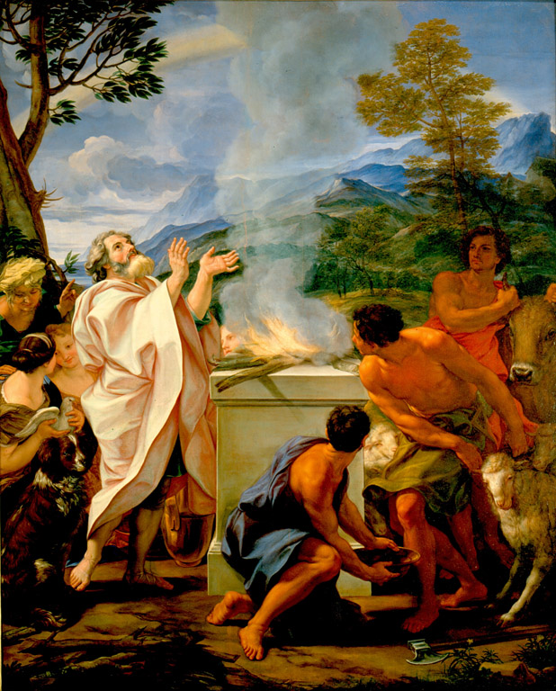 The Thanksgiving of Noah by Il Baciccio (Giovanni Battista Gaulli), oil on canvas, c. 1700, High Museum of Art